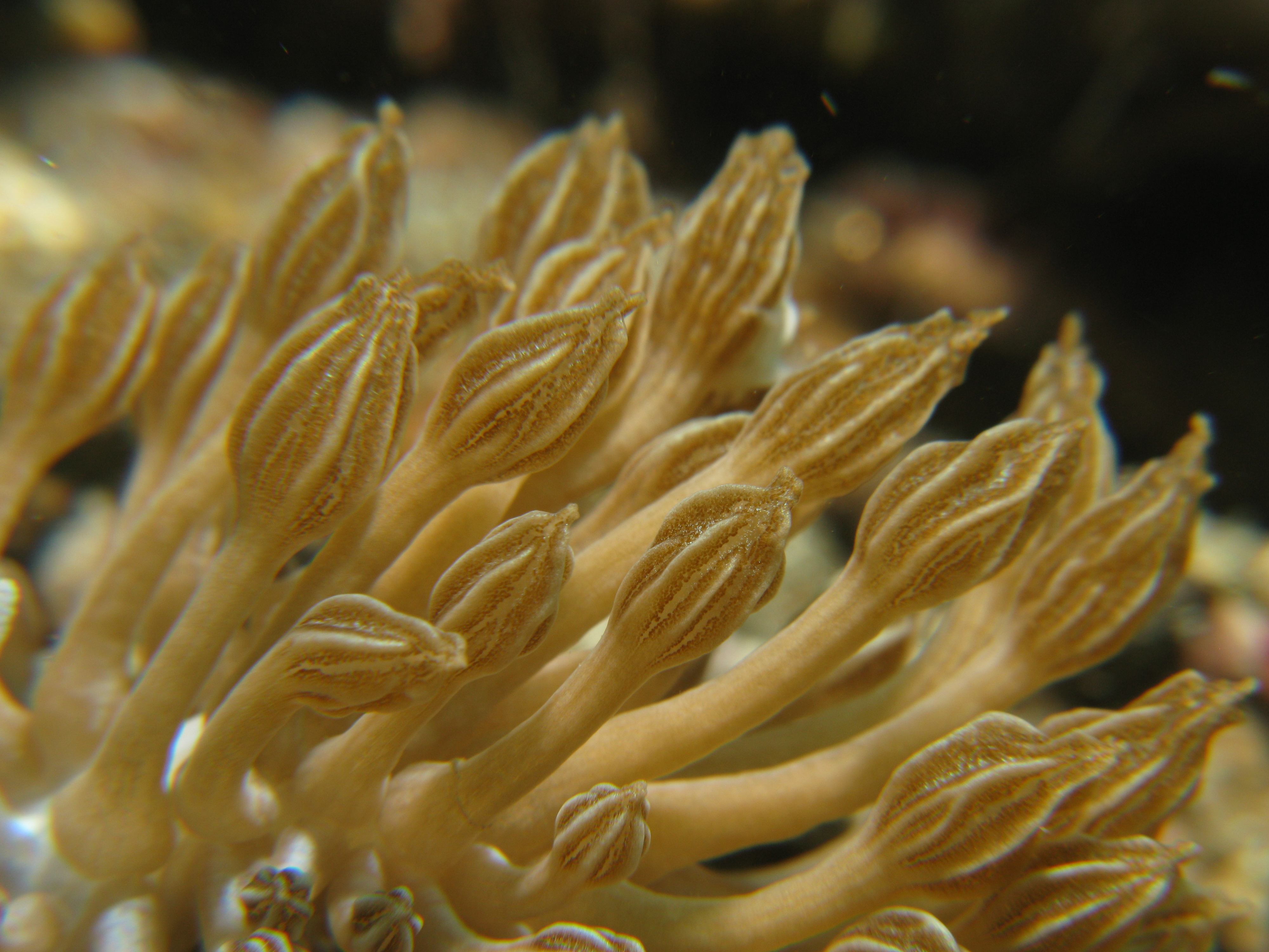 detail of cerata of Phyllodesmium rudmani from Bitung, North Sulawesi.